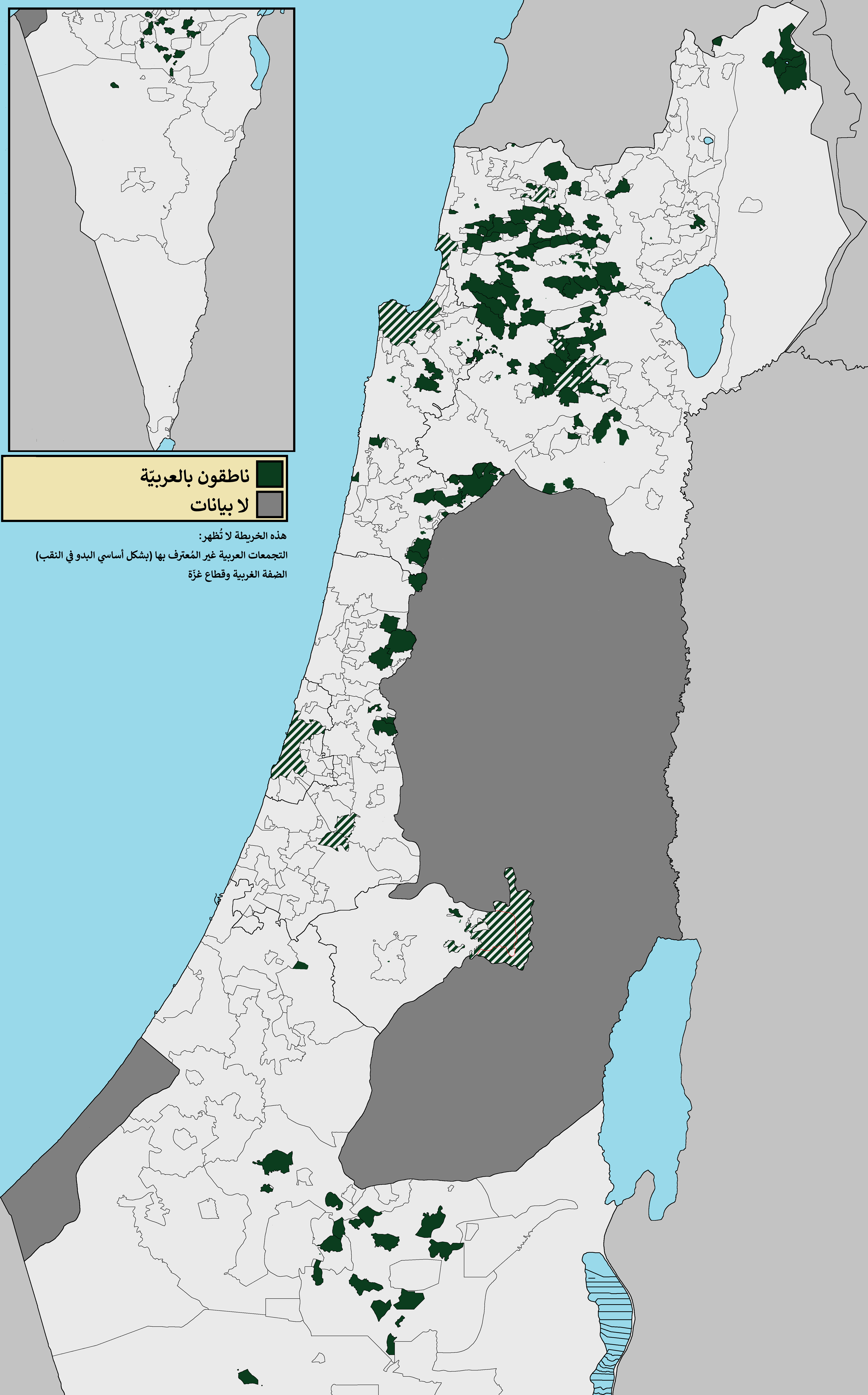 This is a map of all the Arabic speaking localities in the State of Israel (including East Jerusalem and the Golan Heights). Striped represent officially mixed cities (by law, at least 2% Arabs in a Jewish majority city). Note: Jerusalem is officially a mixed city but the map shows the boundries of Arab and Jewish neighborhoods.